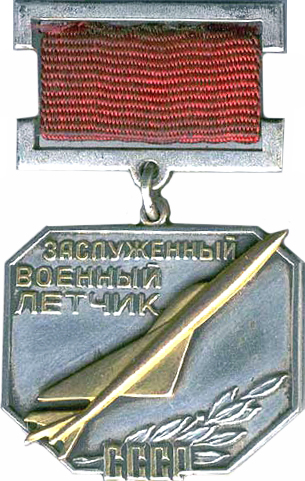 Honorary title "Meritorious Military Pilot of the USSR", here order (honour) on ribbon.